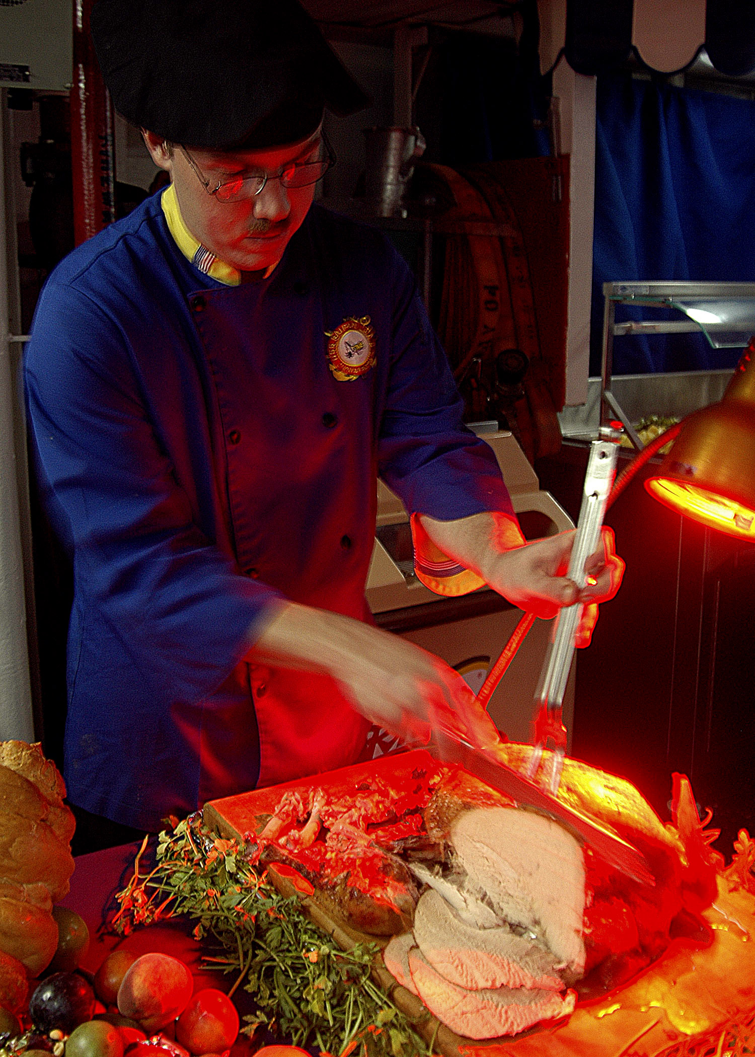 Arabian Sea (Nov. 23, 2006) - Culinary Specialist Seaman Eric Trute carves a turkey in preparation for the Thanksgiving Day meal on the mess decks of the amphibious assault ship USS Saipan (LHA 2). Saipan is currently on deployment in the 5th Fleet area of responsibility conducting maritime security operations (MSO. U.S. Navy photo by Mass Communication Specialist Seaman McKinley Cartwright (RELEASED)